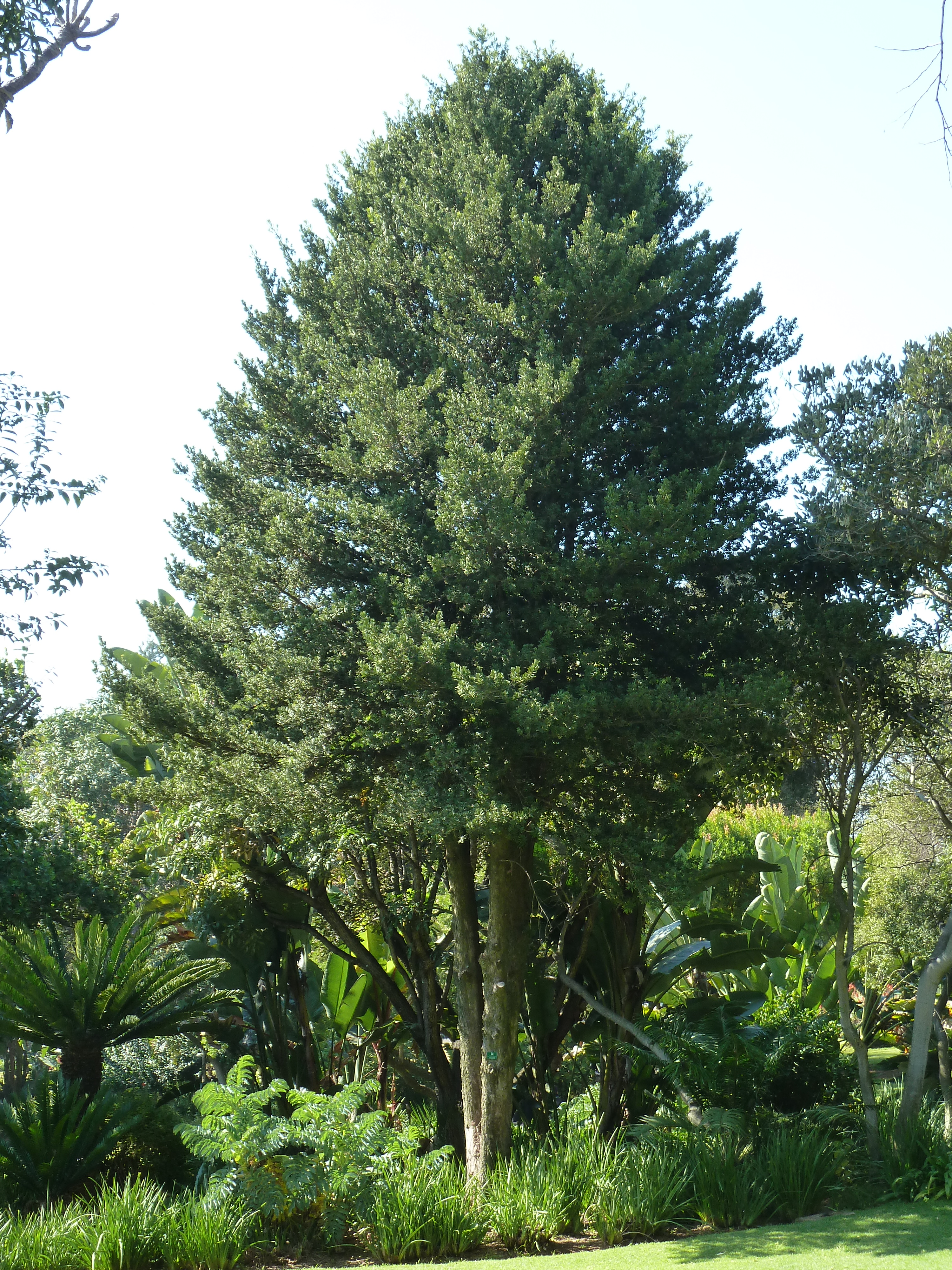 Real yellowwood in Jan Celliers Park, Pretoria